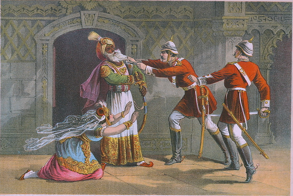 A greatly exoticized version of the event, in a lithograph from 1878